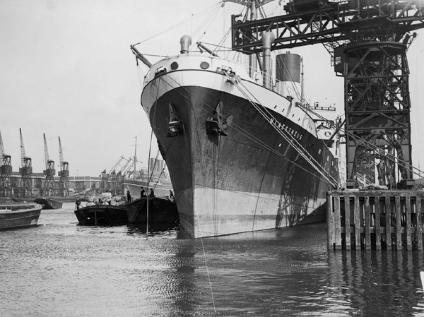 The 'Menestheus' in King George V Dock Reproduction ID:: H0873 Maker: Unknown